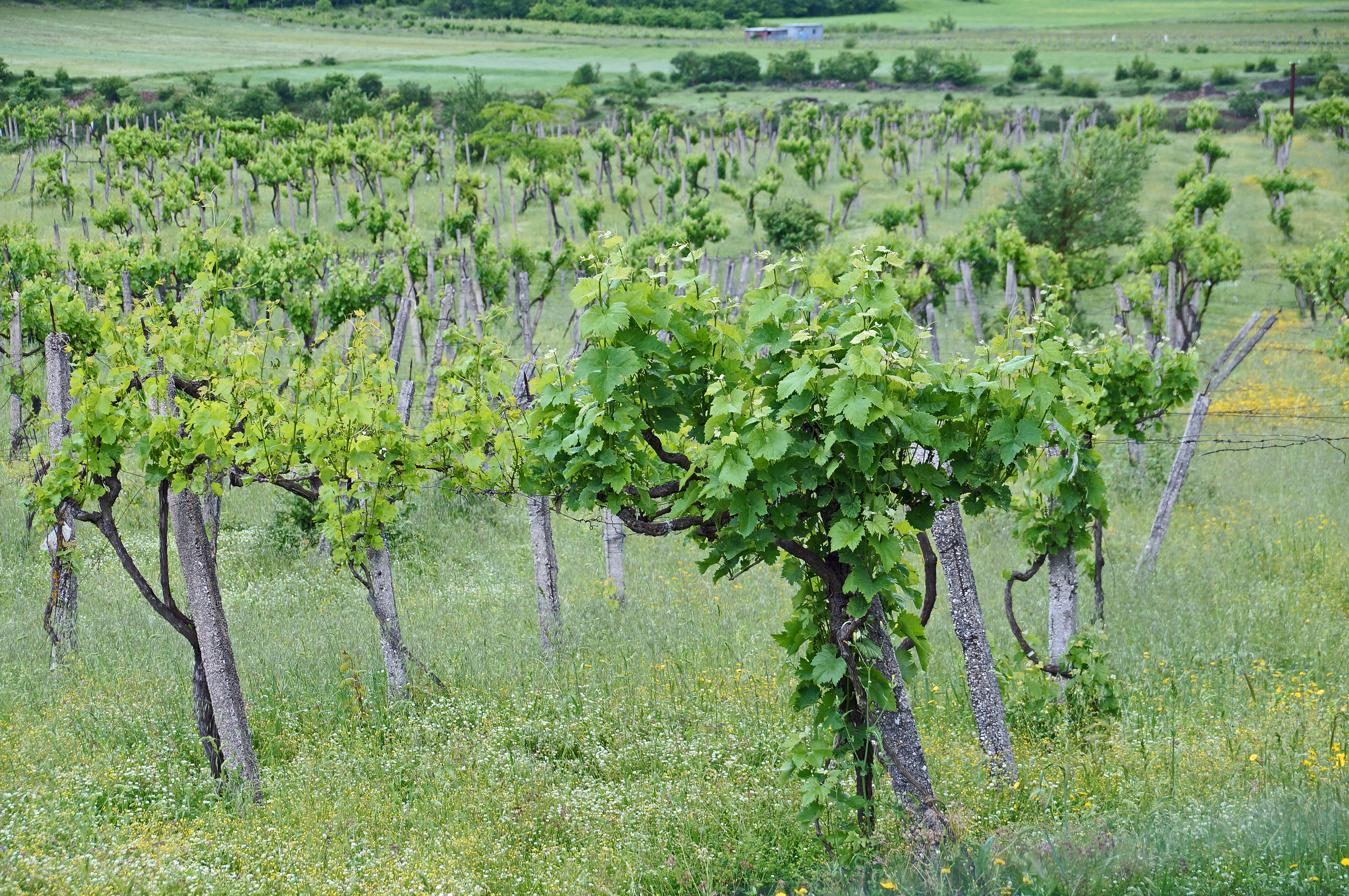 Vineyard in Përmet district, South Albania